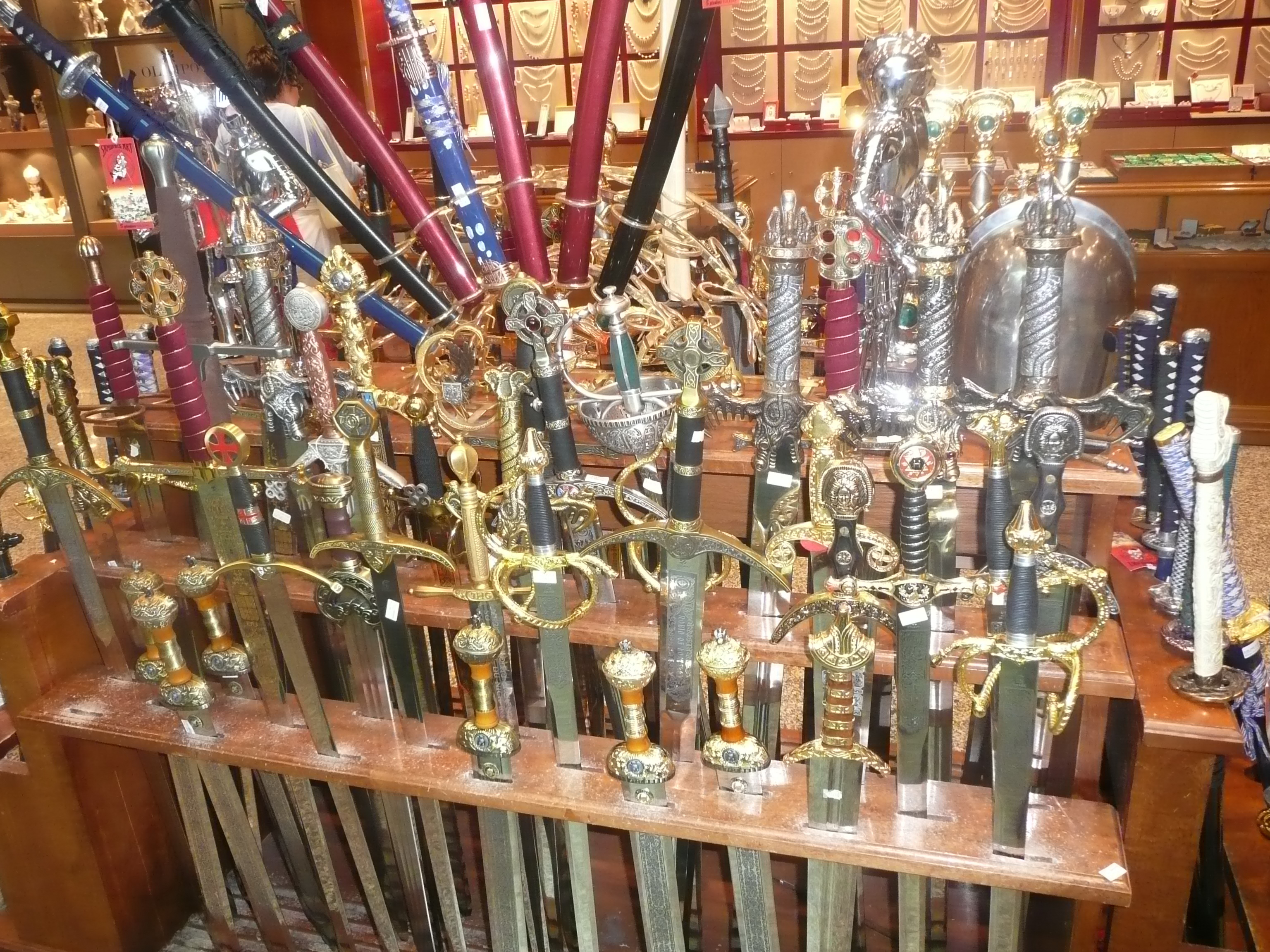 Toledo Sword Shop